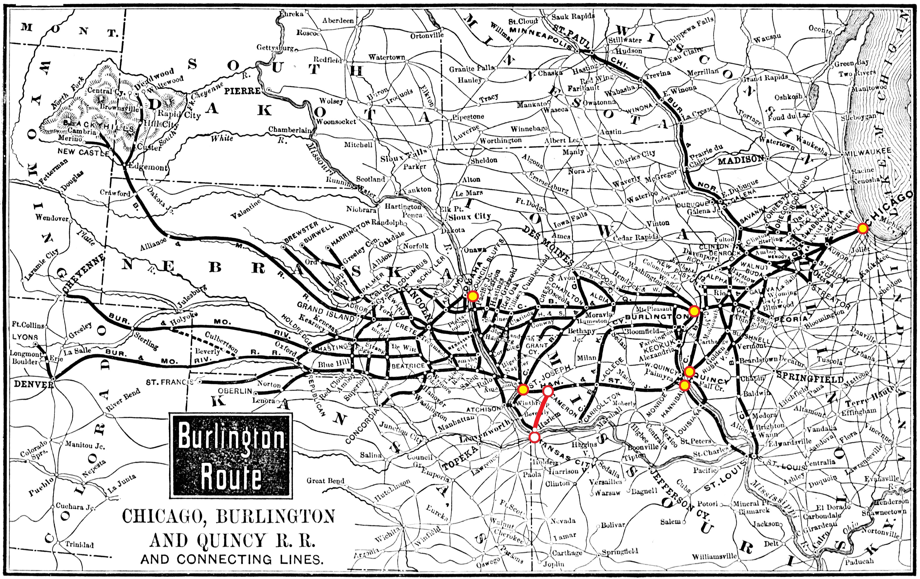 Map of the Chicago, Burlington and Quincy Railroad 1891 with marked extension to Kansas City